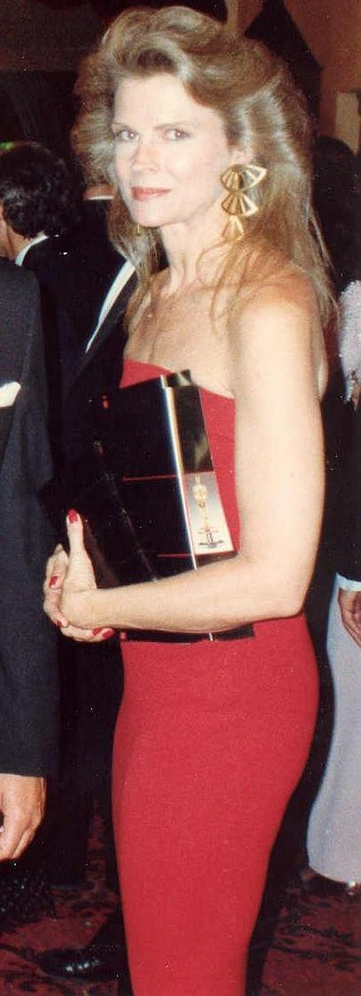 Actress Candice Bergen at 1998 Academy Awards